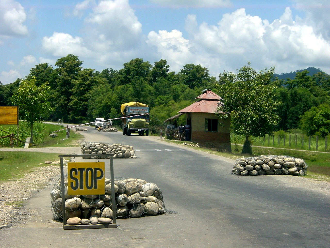 Nepal: On the road leading from Nepalgunj to Tikapur in western Nepal, security checkpoints have been added due to security concerns with the Maoist insurgents. Stone barricades are in the road to slow vehicles to a crawl so that vehicles, passengers and cargo can be inspected before proceeding..